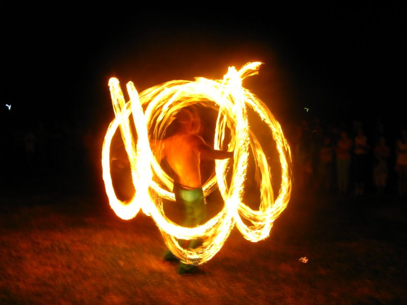 Productions are in Romania